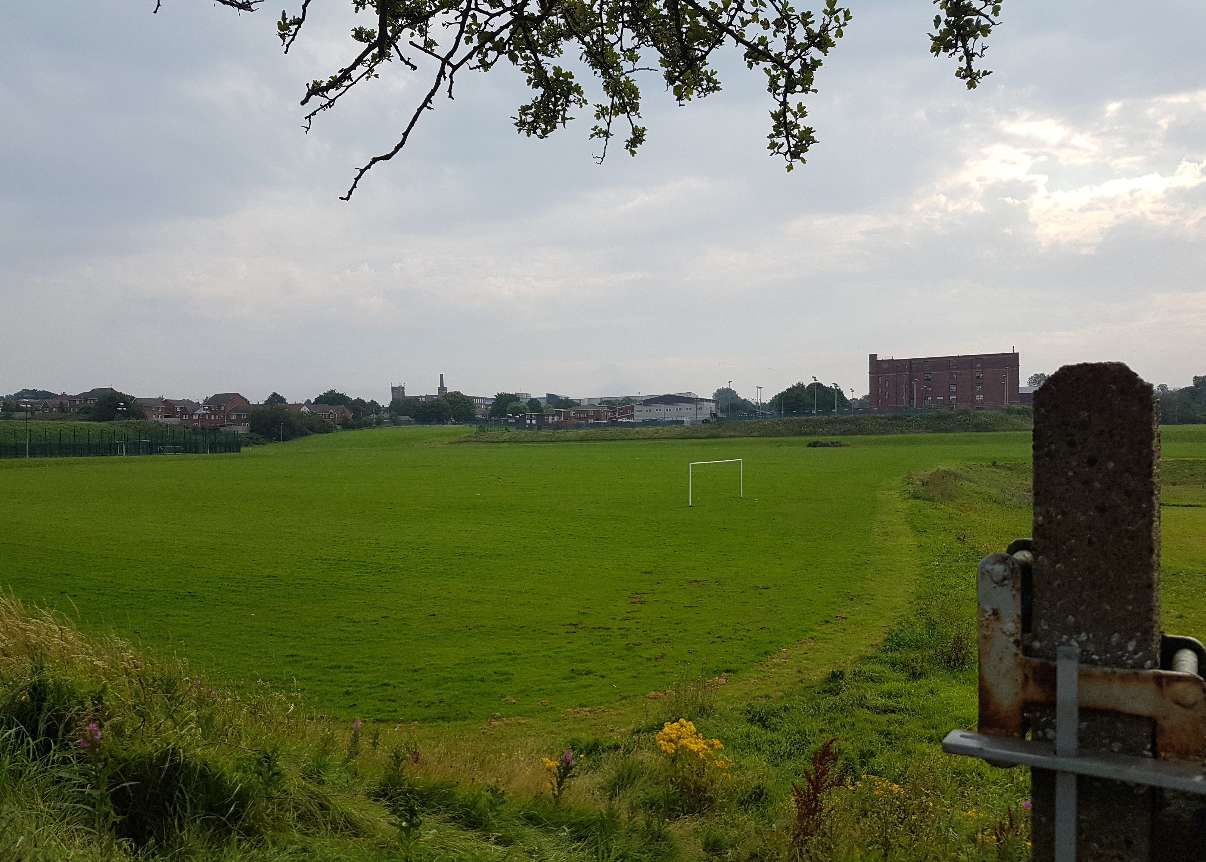 A view over the playing fields of Hathershaw College, Hathershaw, Oldham, England OL8 3EP. The college buildings are in the centre background.